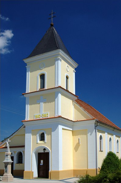 Dubovce, church